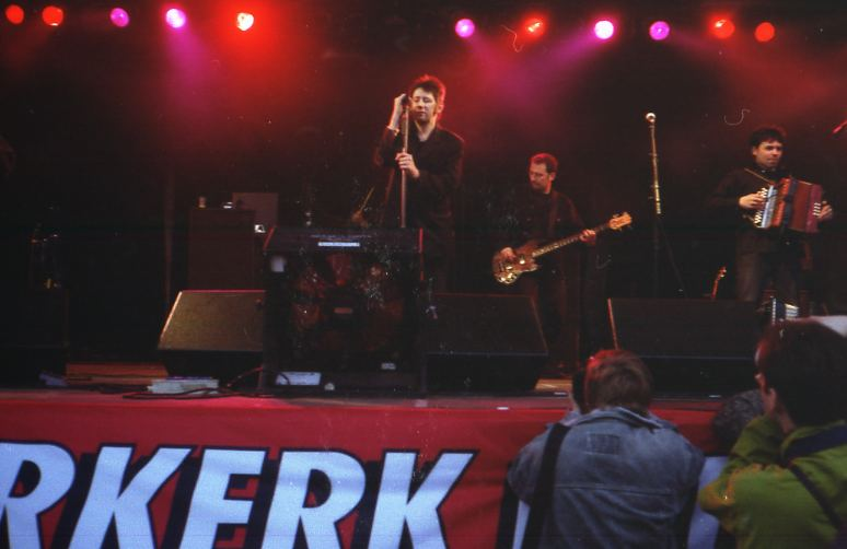 Shane MacGowan and the Popes, performing on the Huntenpop festival, 1997.